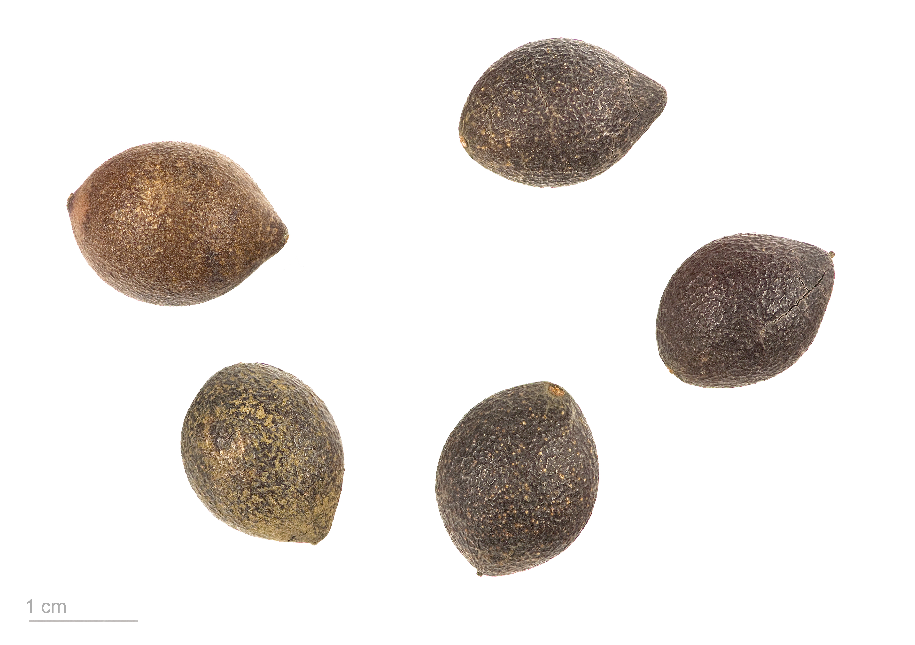 Avellano chileno, fruits and seeds